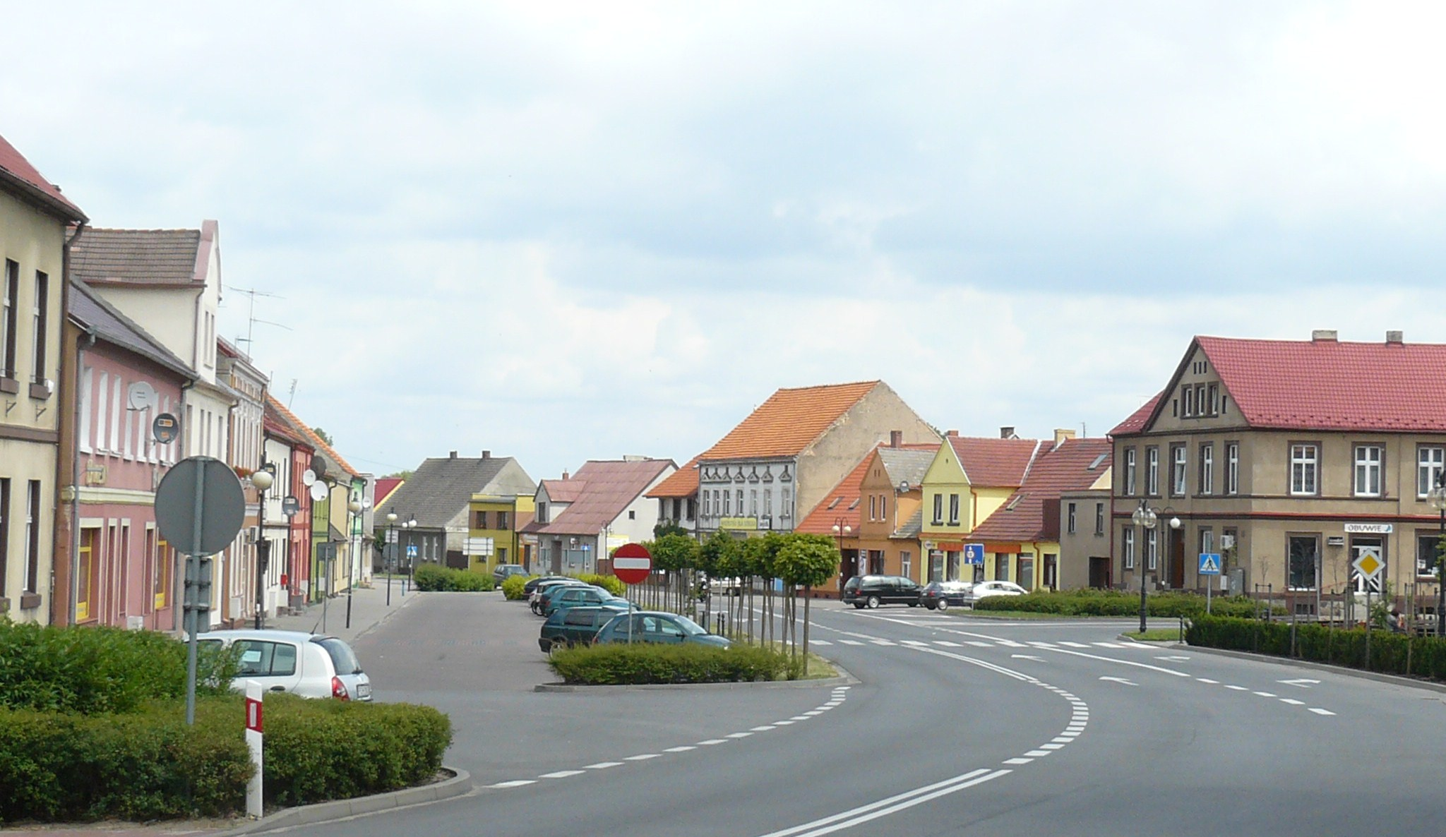 Szamocin, Market Square.